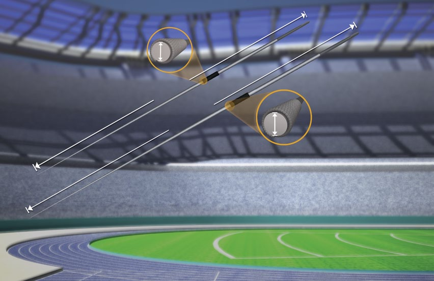 javeline trow